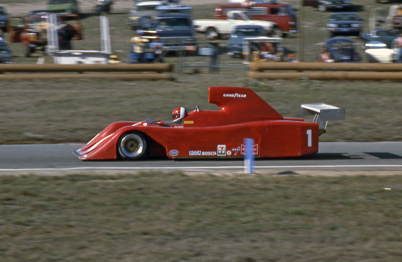 Al Holbert finished second in the 1982 Laguna Seca Can-Am race, driving a VDS-001.